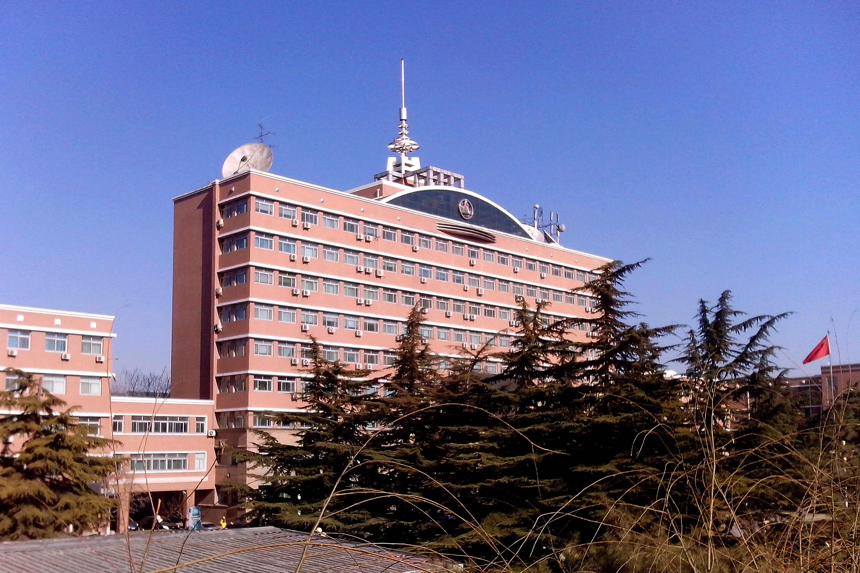 The main building of Communication University of China